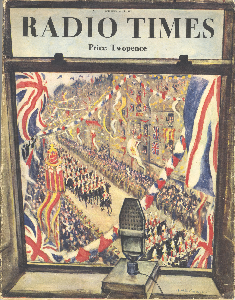 Cover of the Radio Times, 7 May 1937 edition, marking the Coronation of George VI of the United Kingdom; with a painting by Christopher Richard Wynne Nevinson